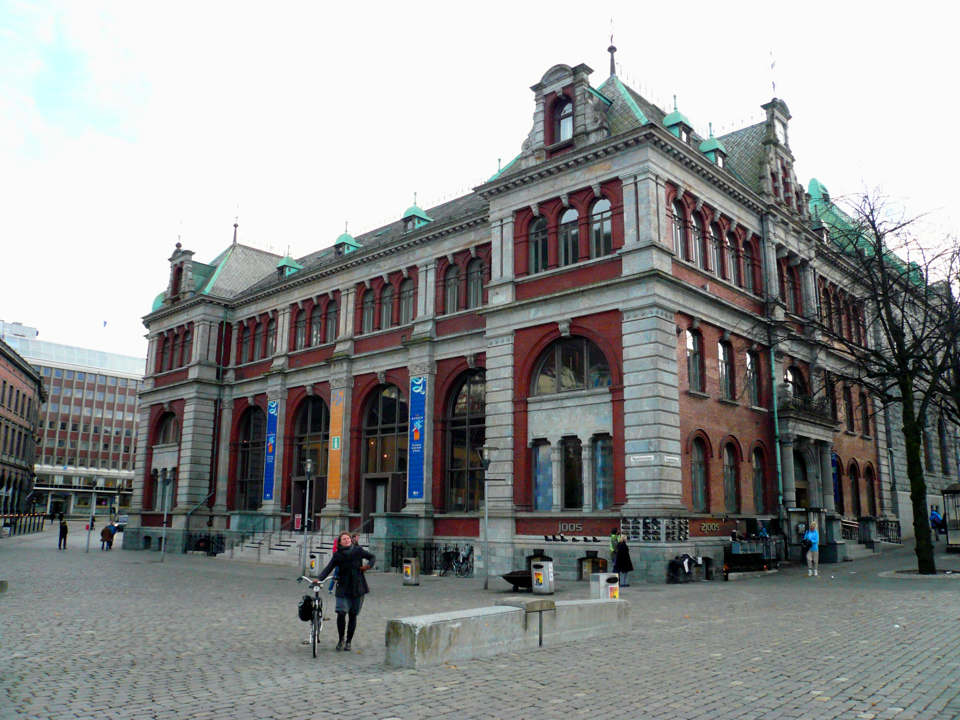 Bergen børs, Vågsallmenningen 1, Bergen, Norway.